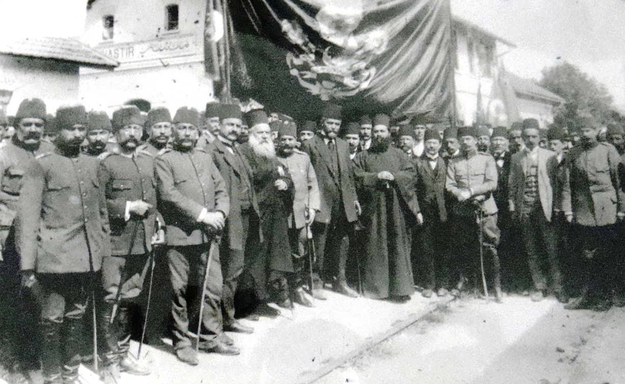 Reception Sultan Mehmed V Reşâd in the train station in Bitola, 1911 This media file is produced by Wikipedian in Residence in Category:Wikipedian in Residence at DARM in 2016.